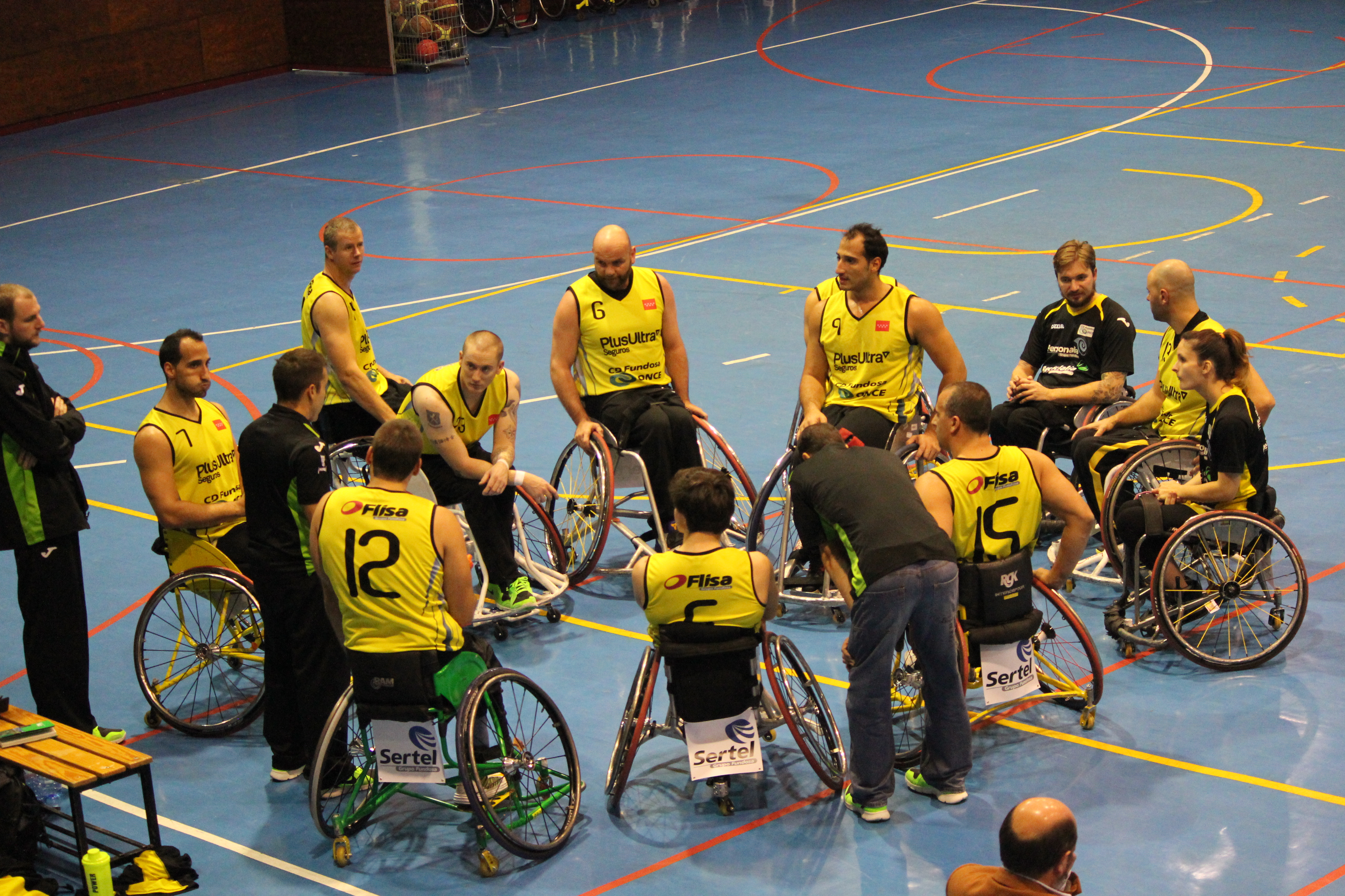 ONCE v Getafe, Madrid, November 9, 2013